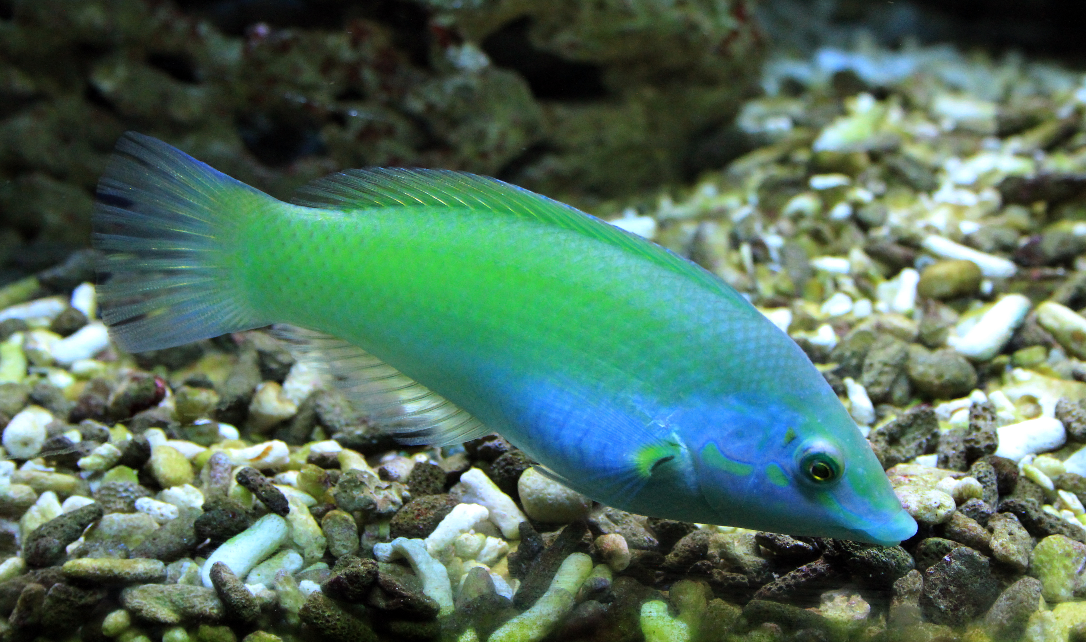 Unidentified Labridae in Prague sea aquarium, Czech Republic Česky: Ryba sapín zelený, (Chromis viridis) v pražském mořském akváriu Mořský svět v Holešovicích